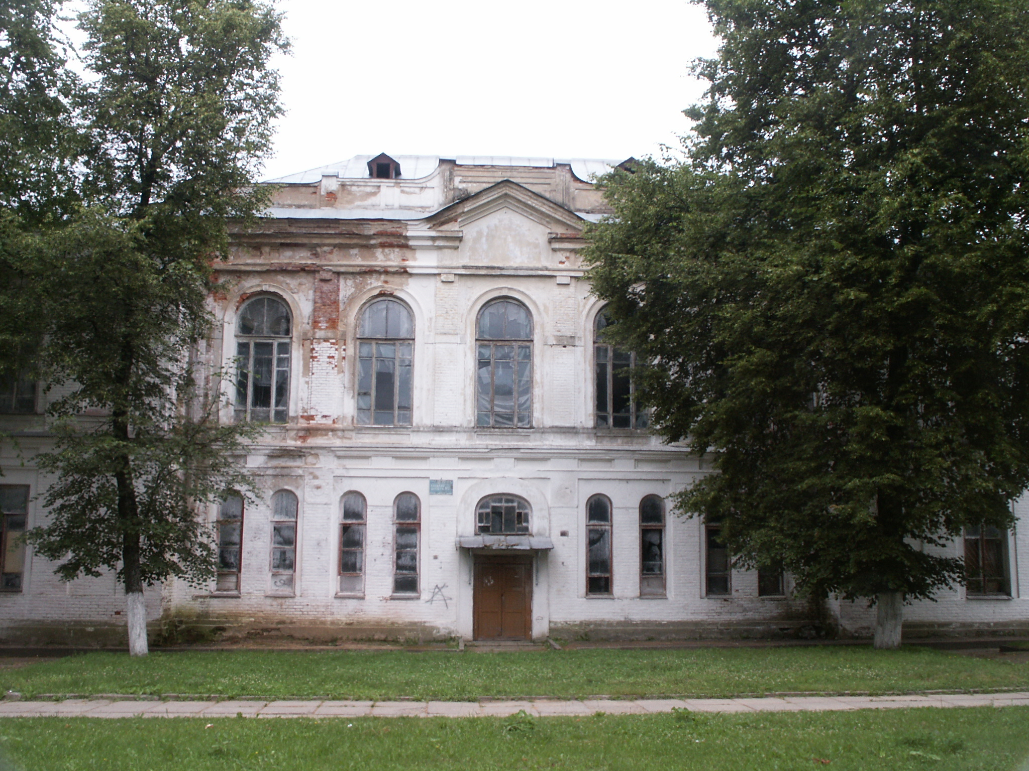 Mstislaw Gimnasium building (XIX century)